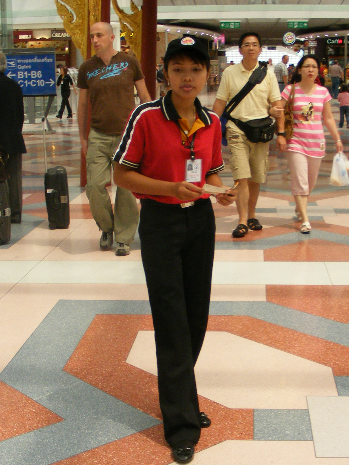 Female Burger King employee distributing 10% discount coupons to passsengers at Suvarnabhumi Airport (Thailand).